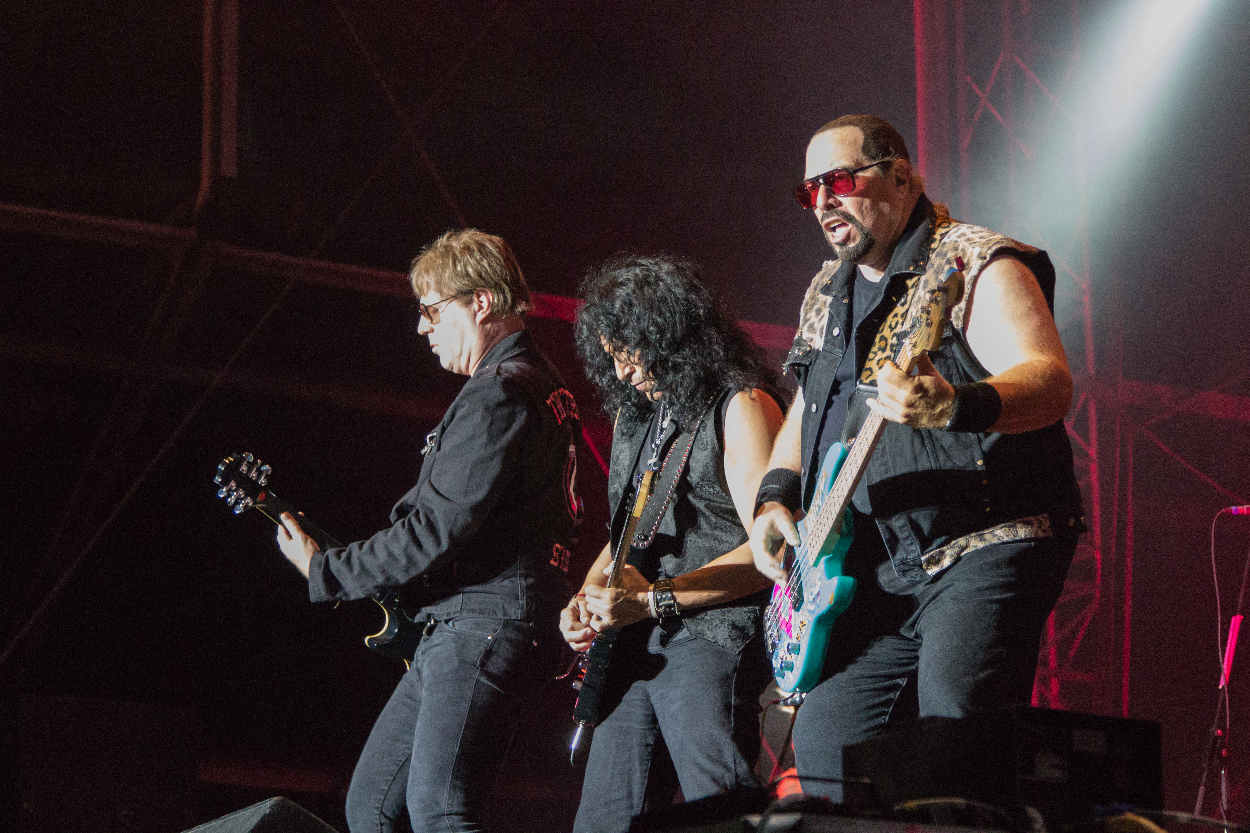 John "Jay Jay" French, Eddie „Fingers“ Ojeda and Mark „The Animal“ Mendoza from Twisted Sister at the See-Rock Festival 2014